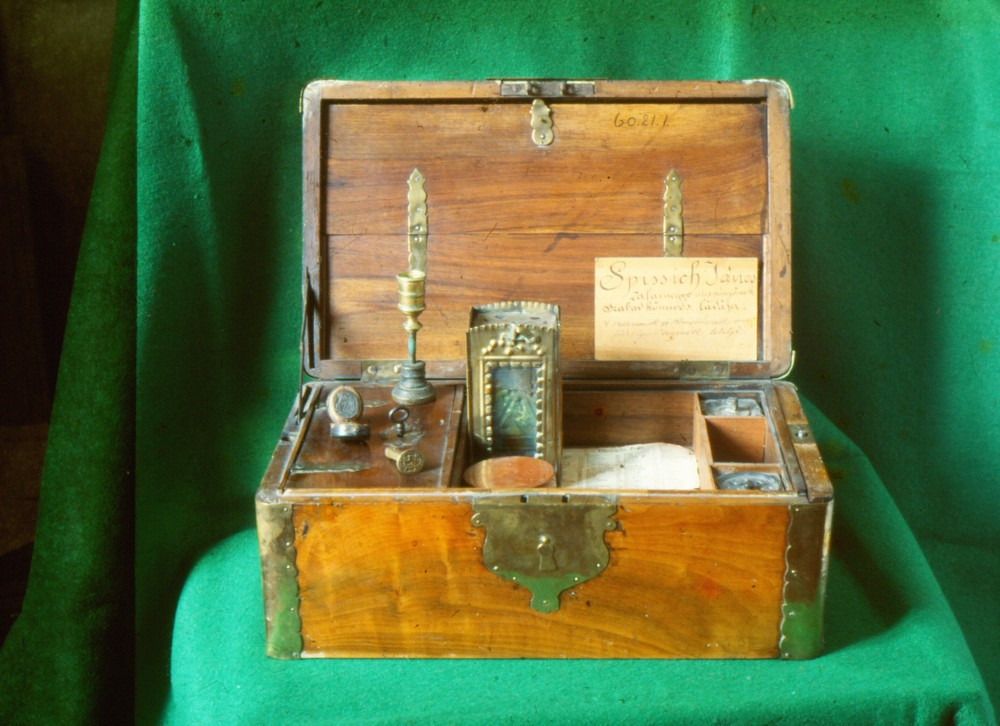 Spissich, János' Freemason box